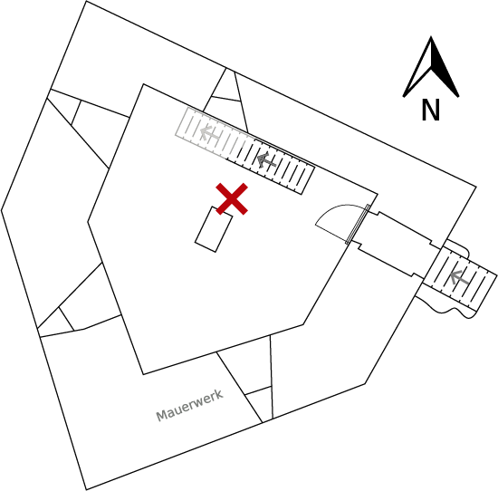 Krummturm floor plan with roof peak